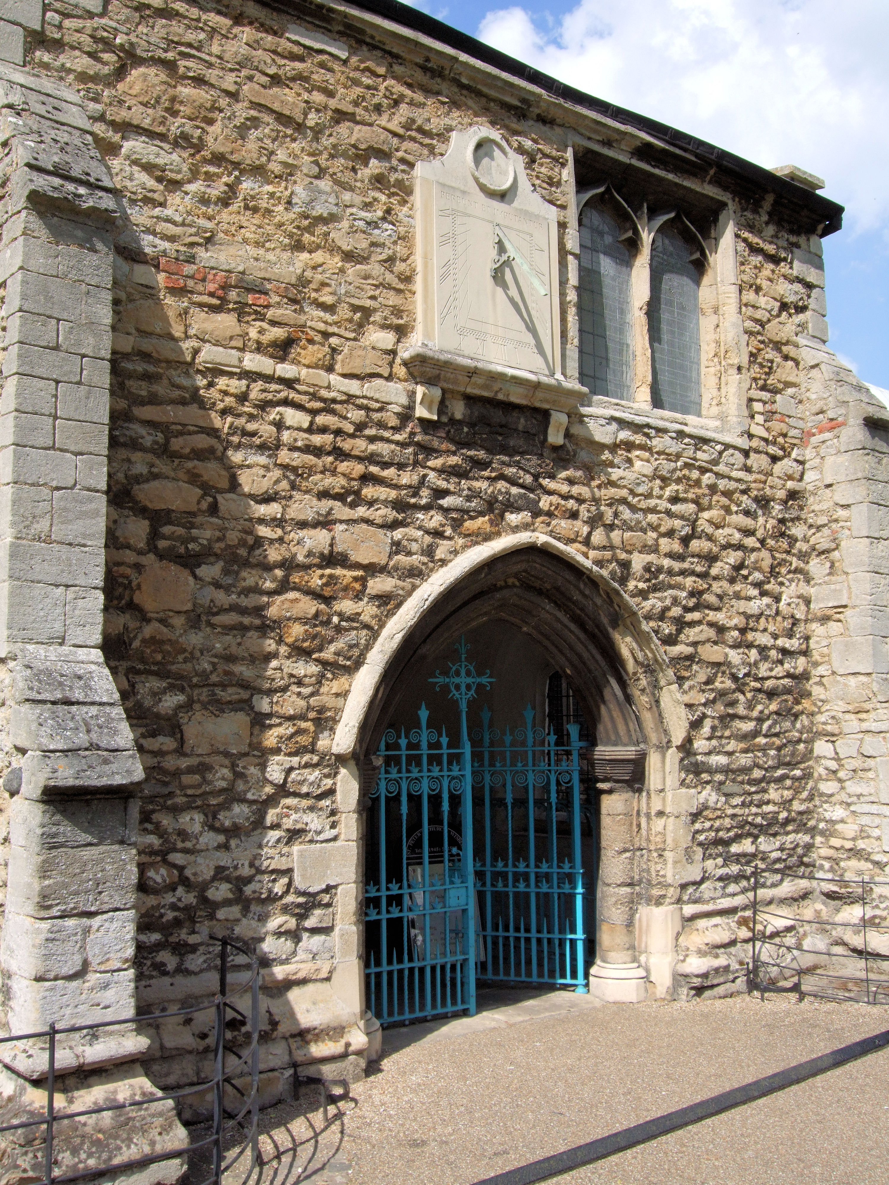 Original description: Entrance To The Church Of St Peter & St.Paul, Wisbech The south porch of St Peter's Church, Wisbech, Cambridgeshire was the original schoolroom of Wisbech Grammar School (founded 1379).